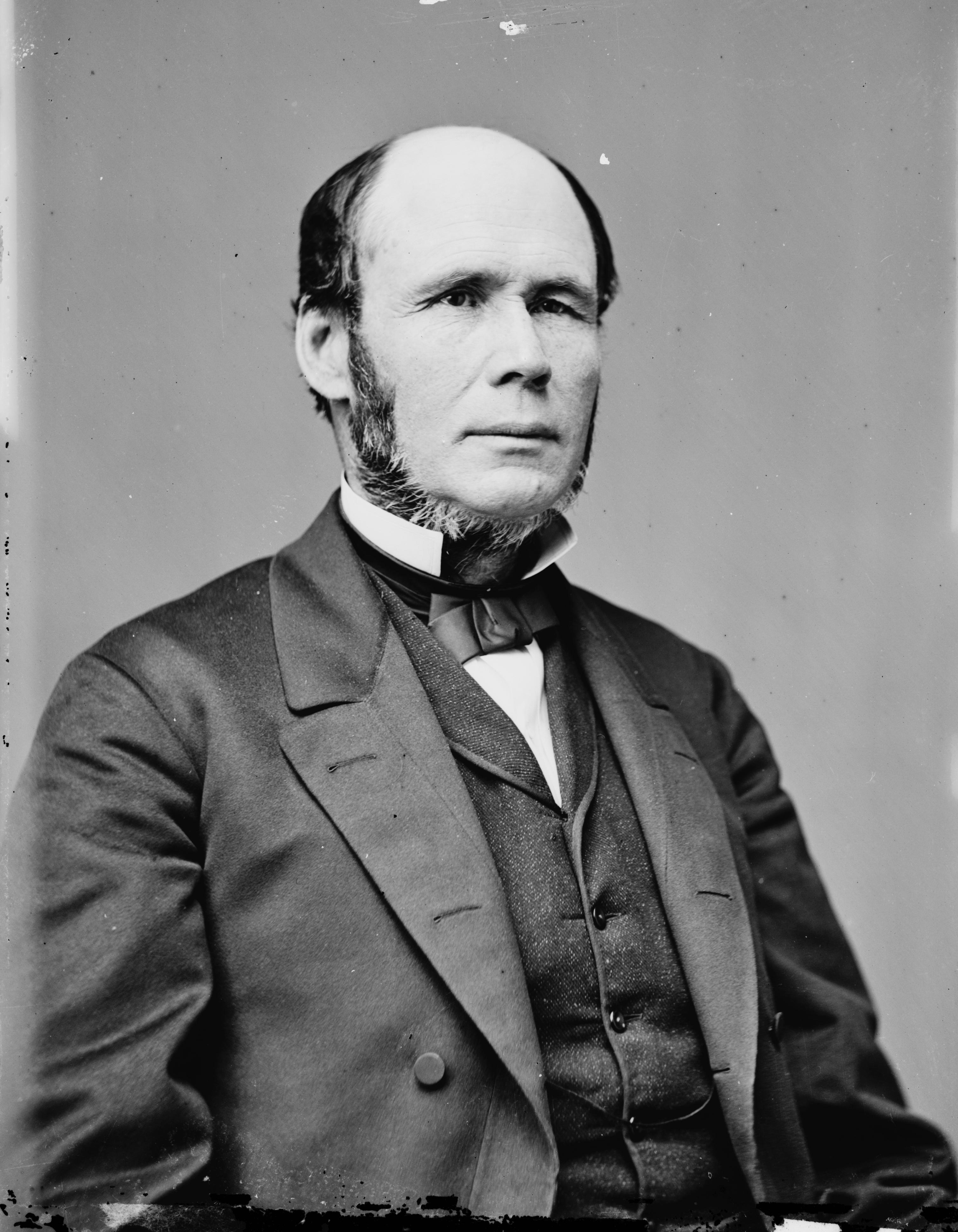 John C. Ten Eyck. Library of Congress description: "Hon. John Conover Ten Eyck"